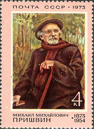 Russian stamp of Michael Prishvin